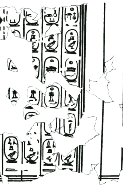 Detail from the king list: from top to bottom are the names of the kings Neferirkare, Sahure, Khafra, Djedefra, Teti and Bedjatau.